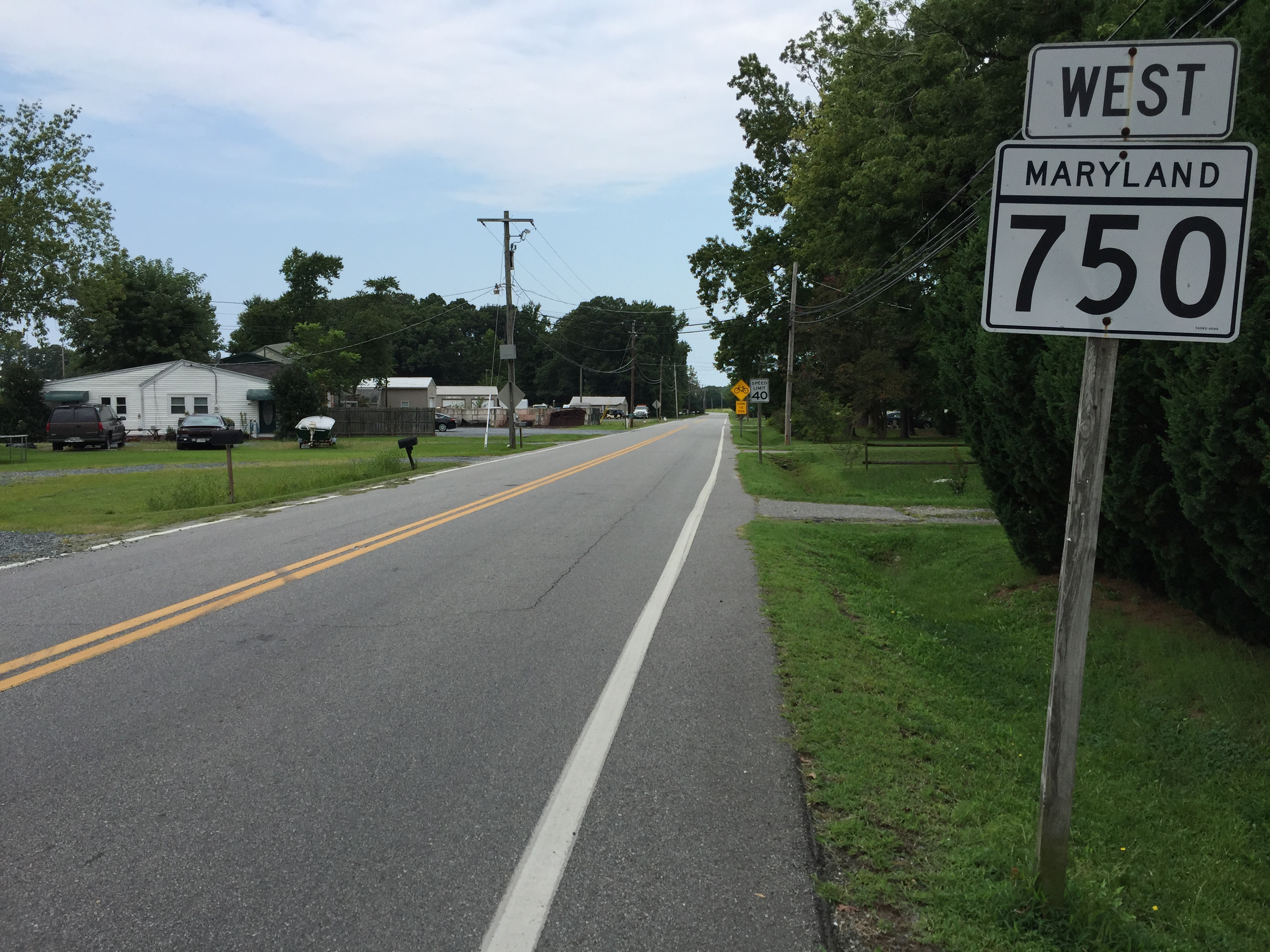 View west along Maryland State Route 750 at Suburban Drive in Jacktown, Dorchester County, Maryland